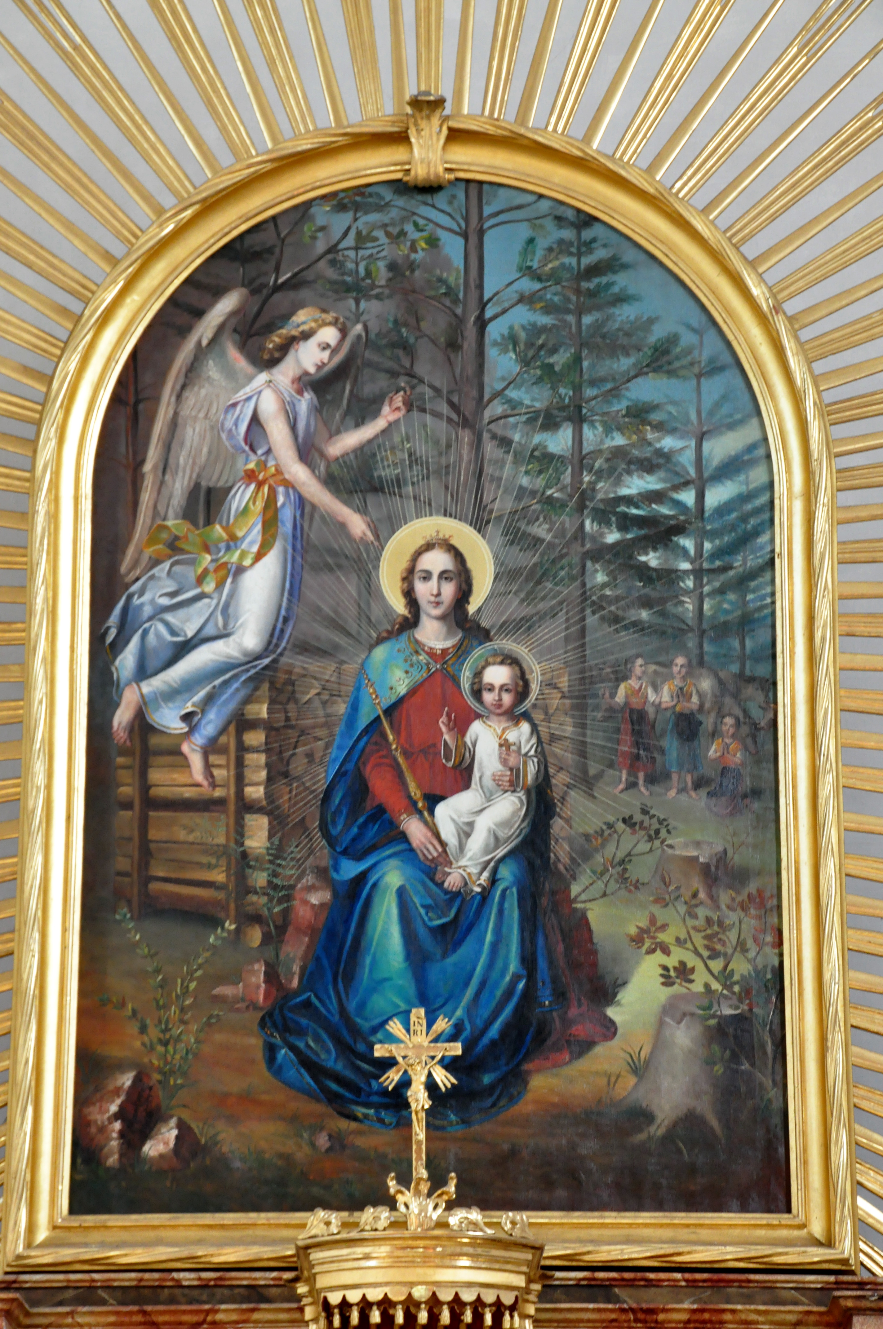 Painting of Madonna and Child (painter Peter Markovič 1906) on the main altar of the subsidiary church “Holy Mary in the forest” at Dolina, market town Grafenstein, district Klagenfurt Land, Carinthia / Austria / EU